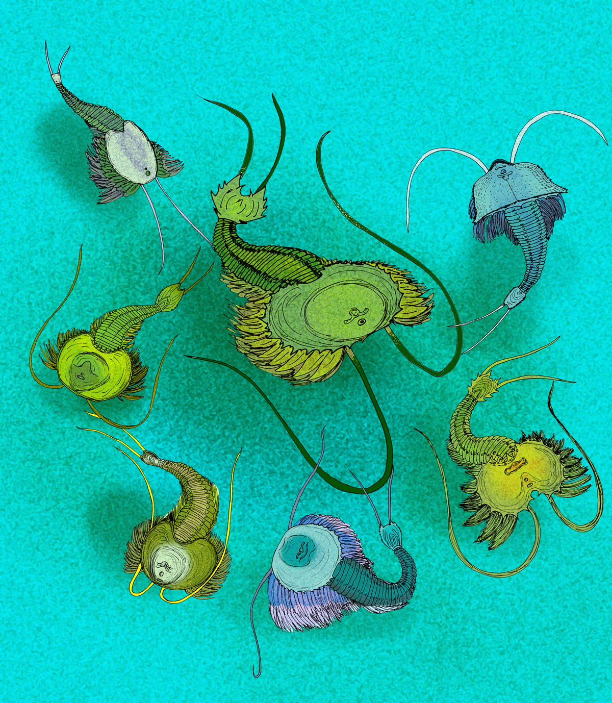 My reconstructions of the seven known species of the order of Jurassic branchiopod crustaceans, Kazacharthra. Clockwise, starting from upper right corner, Kungeja tchakabaevi, Iliella spinosa, Kysyltamia tchiiliensis, Almatium gusevi, Ketmenia schultzi, Jeanrogerium sornayi, Panacanthocaris ketmenia (center). Kazacharthra.jpg